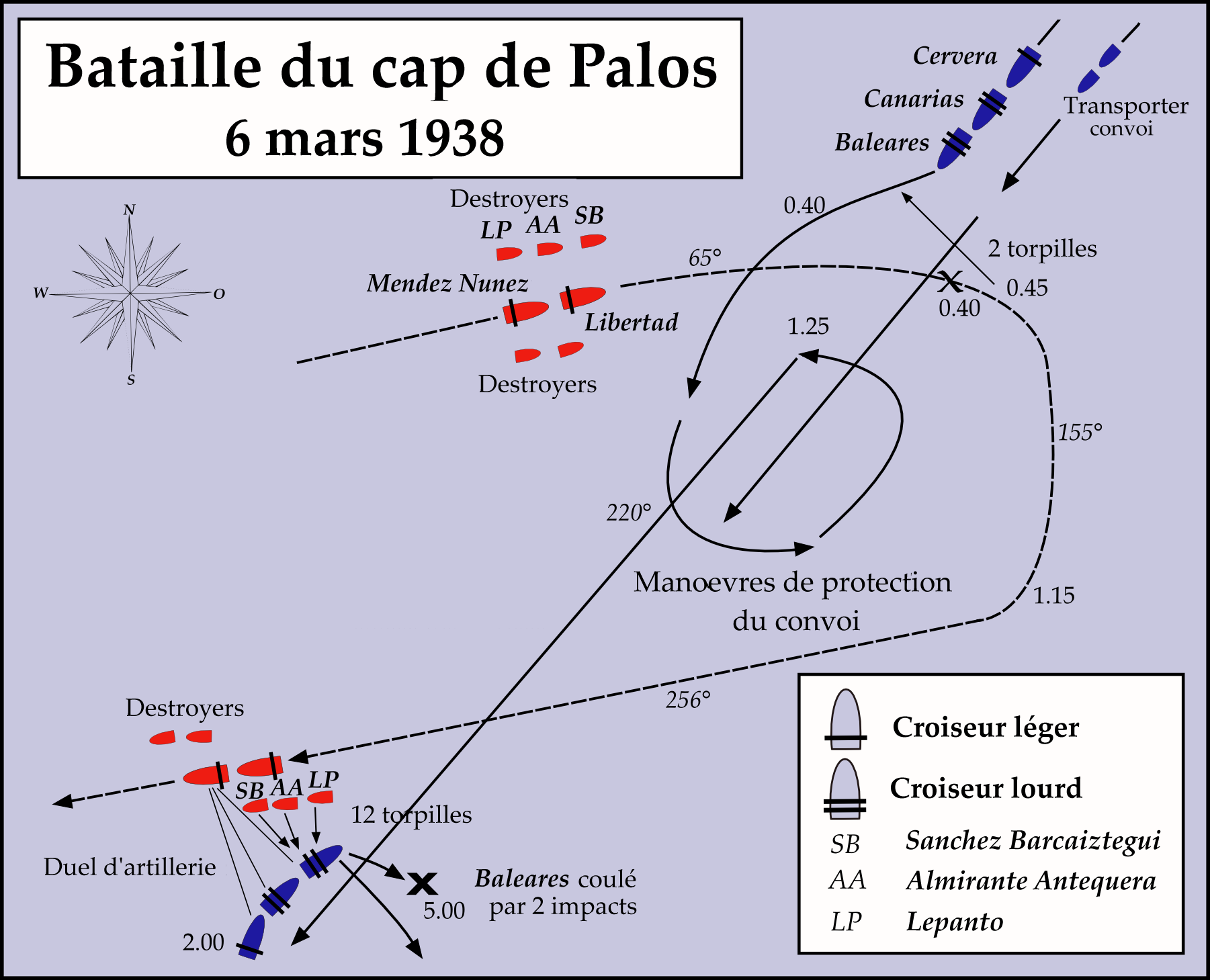 Map Battle of Cape Palos, March 6th 1938.